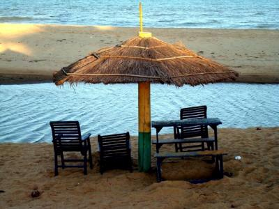 Beach Marobá